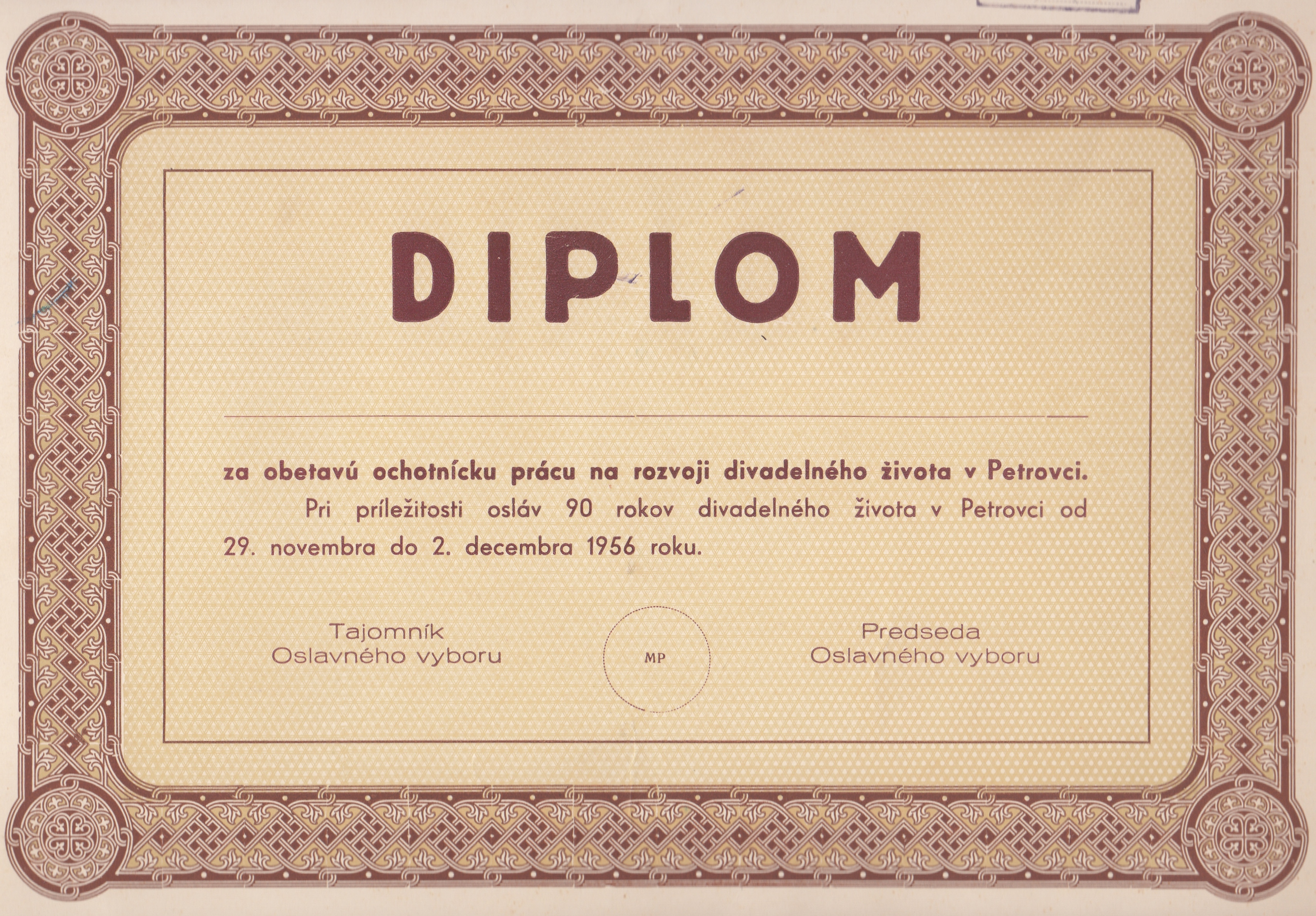 Diploma for contribution to the development of amateur theater in Bački Petrovac, awarded on the occasion of the 90th anniversary of Theater in Bački Petrovac (1956). Inventory number 169. Srpski (latinica): Diploma za doprinos razvoju amaterskog pozorišnog života u Bačkom Petrovcu, koja je dodeljivana povodom proslave 90 godina pozorišnog života u Bačkom Petrovcu (1956). Inventarski broj 169.